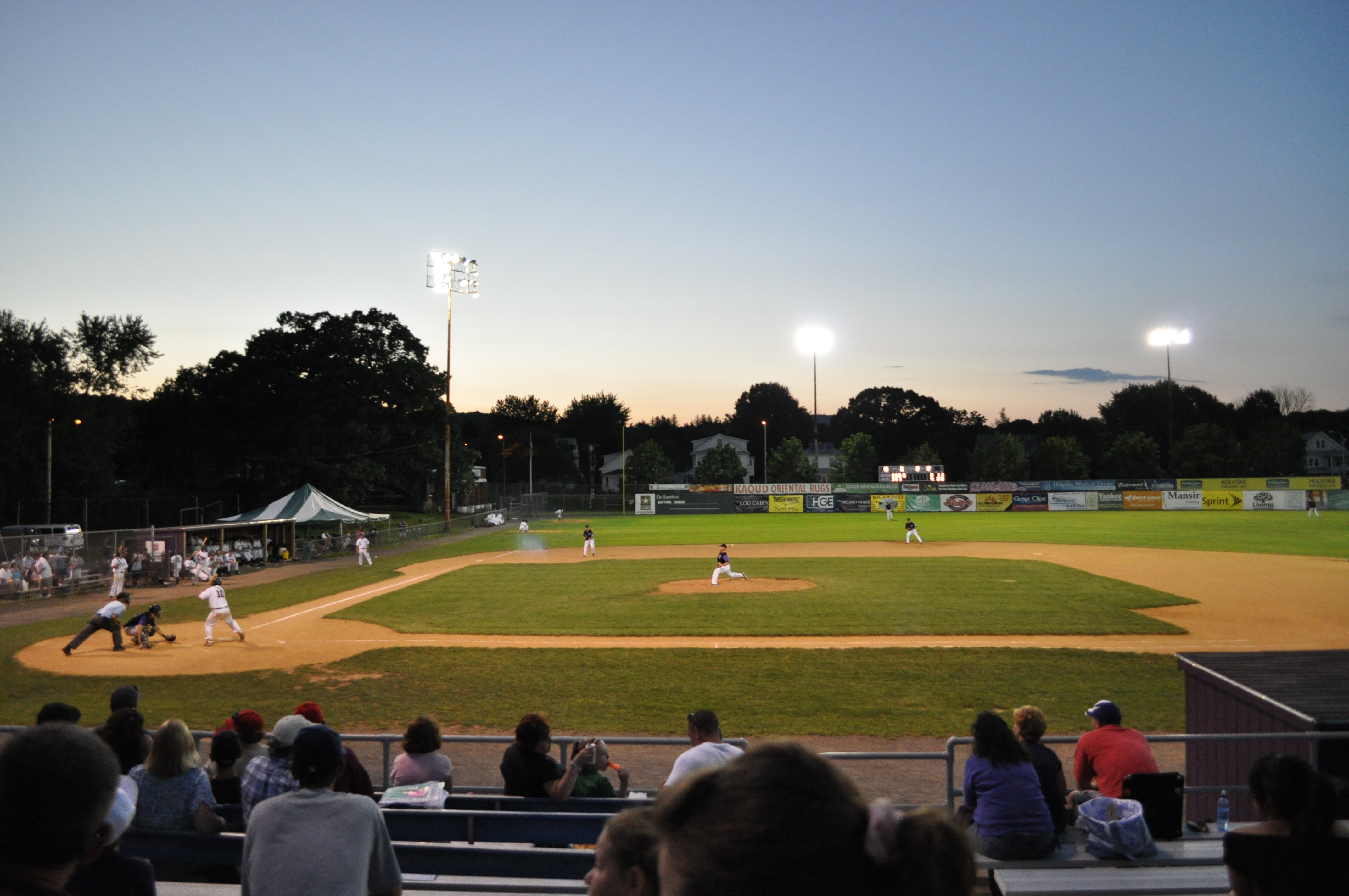 Holyoke Blue Sox vs. Keene Swamp Bats at Mackenzie Stadium. Photo taken from 1st base grandstand.